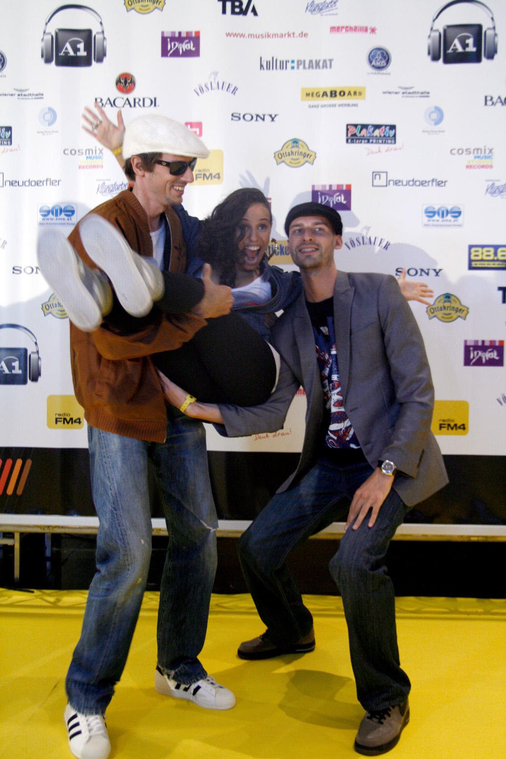 Skero and Joyce Muniz at the Amadeus Austrian Music Award 2010 (Wiener Stadthalle, Vienna, Austria)